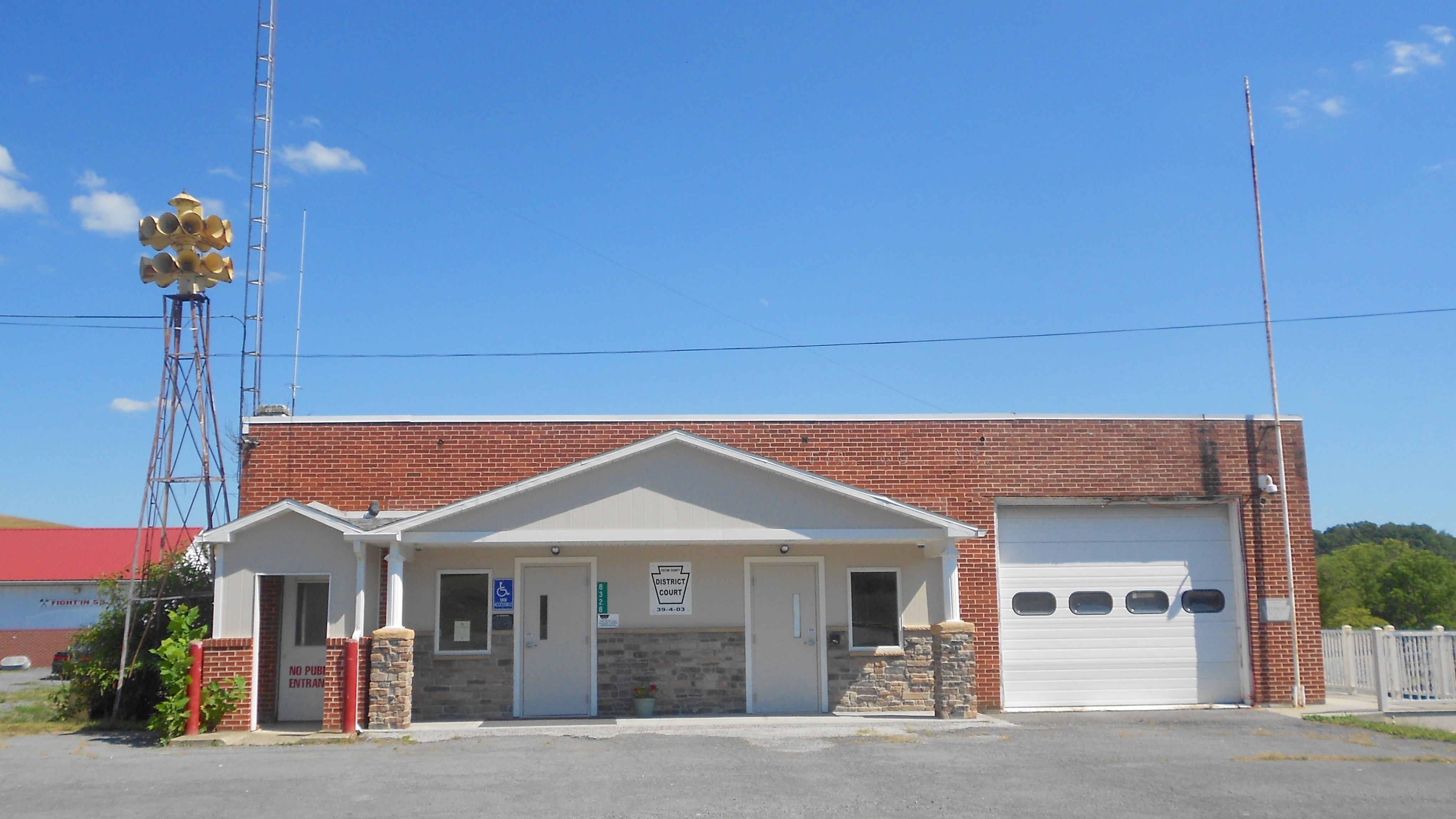 Fulton County Pennsylvania District Court in Needmore, Belfast Township. A former VFW hall, also related to or used by the Fire Department (e.g. sirens and garage door). Main Fire Department is just off the the left